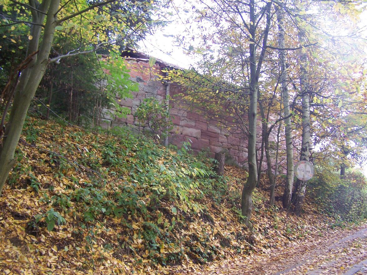 Kriegersberg near Marksuhl village.